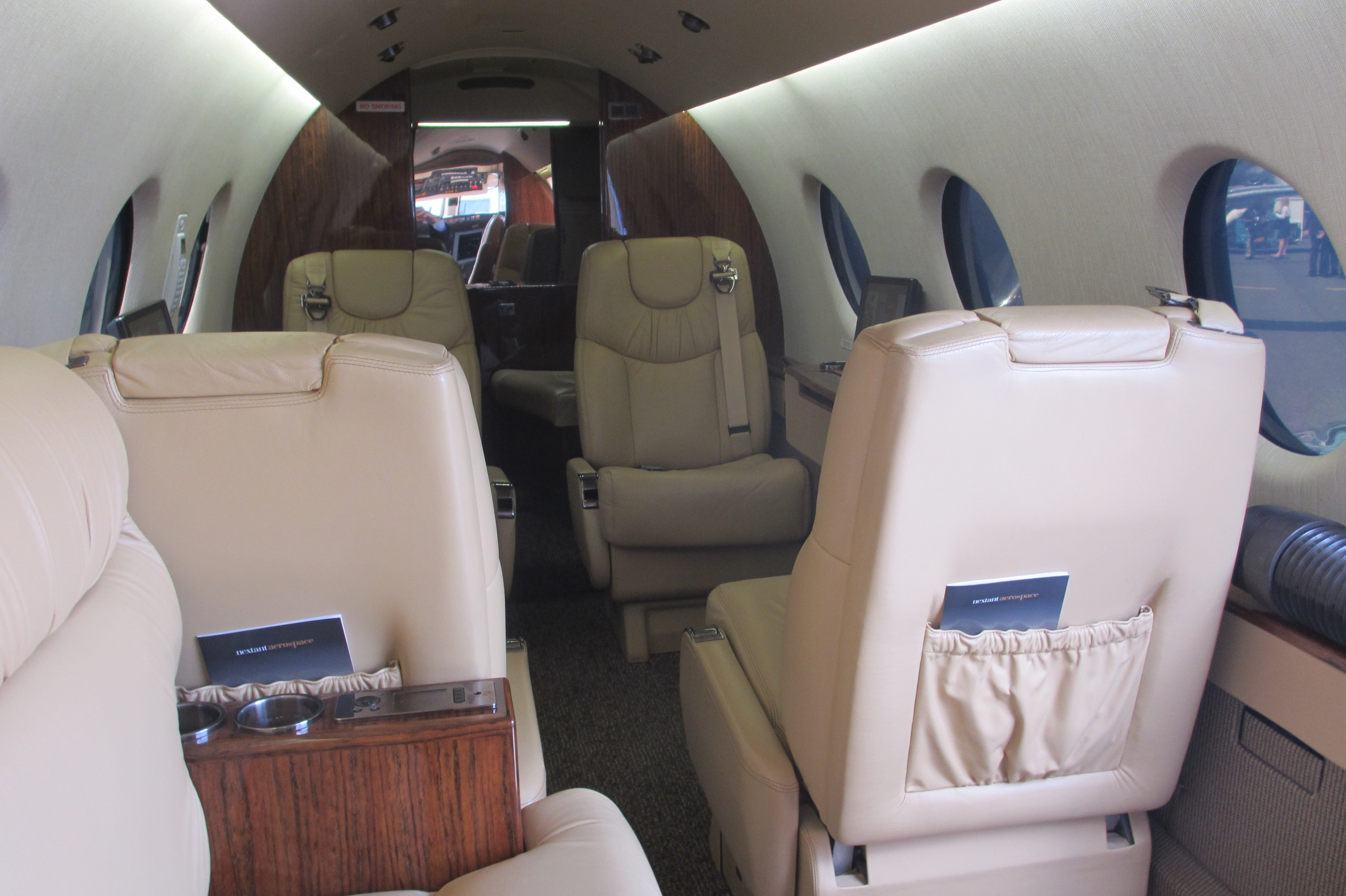 Nextant 400XT cabin interior facing aft